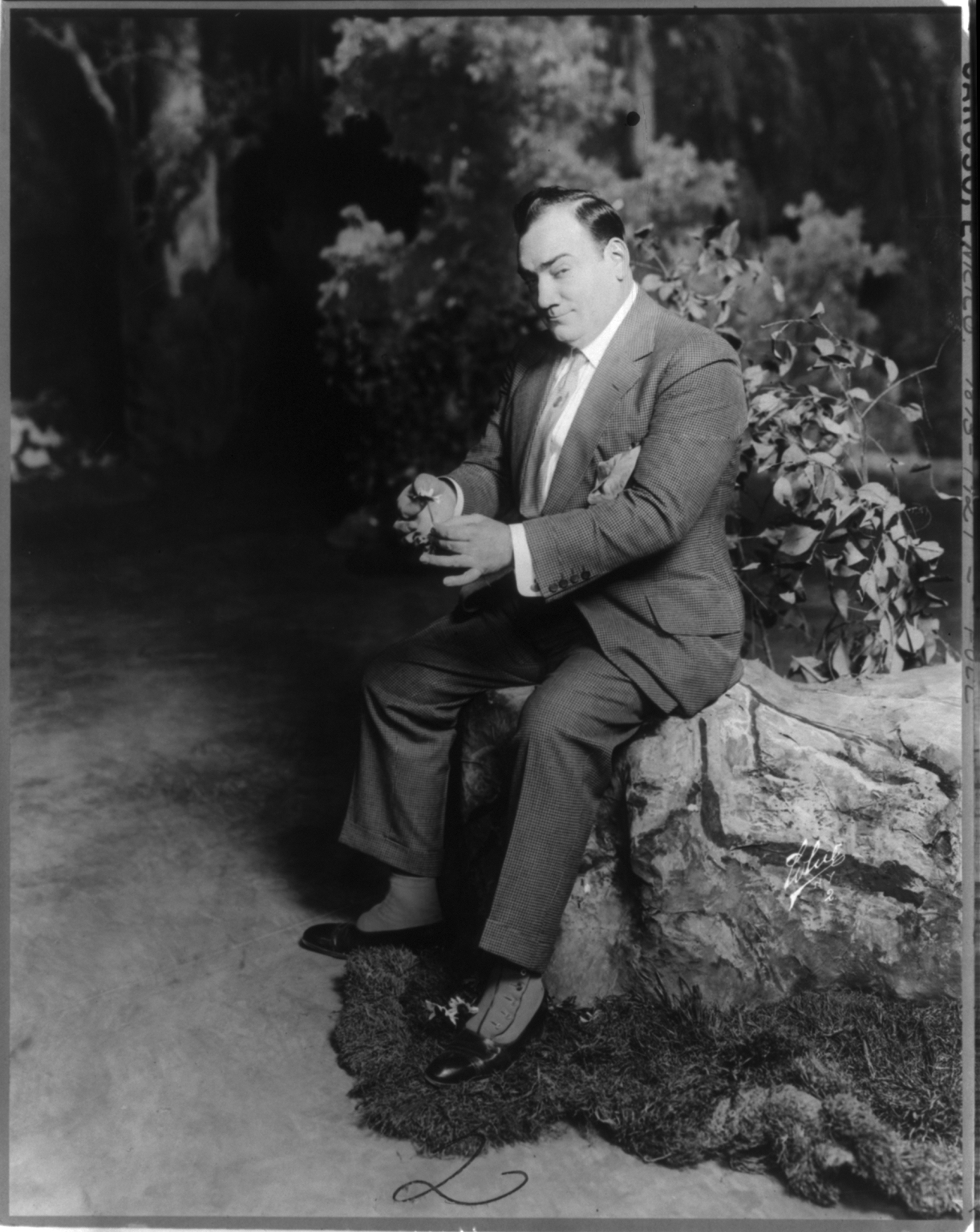 Enrico Caruso, 1873-1921, full-length portrait, seated, facing left, holding flower